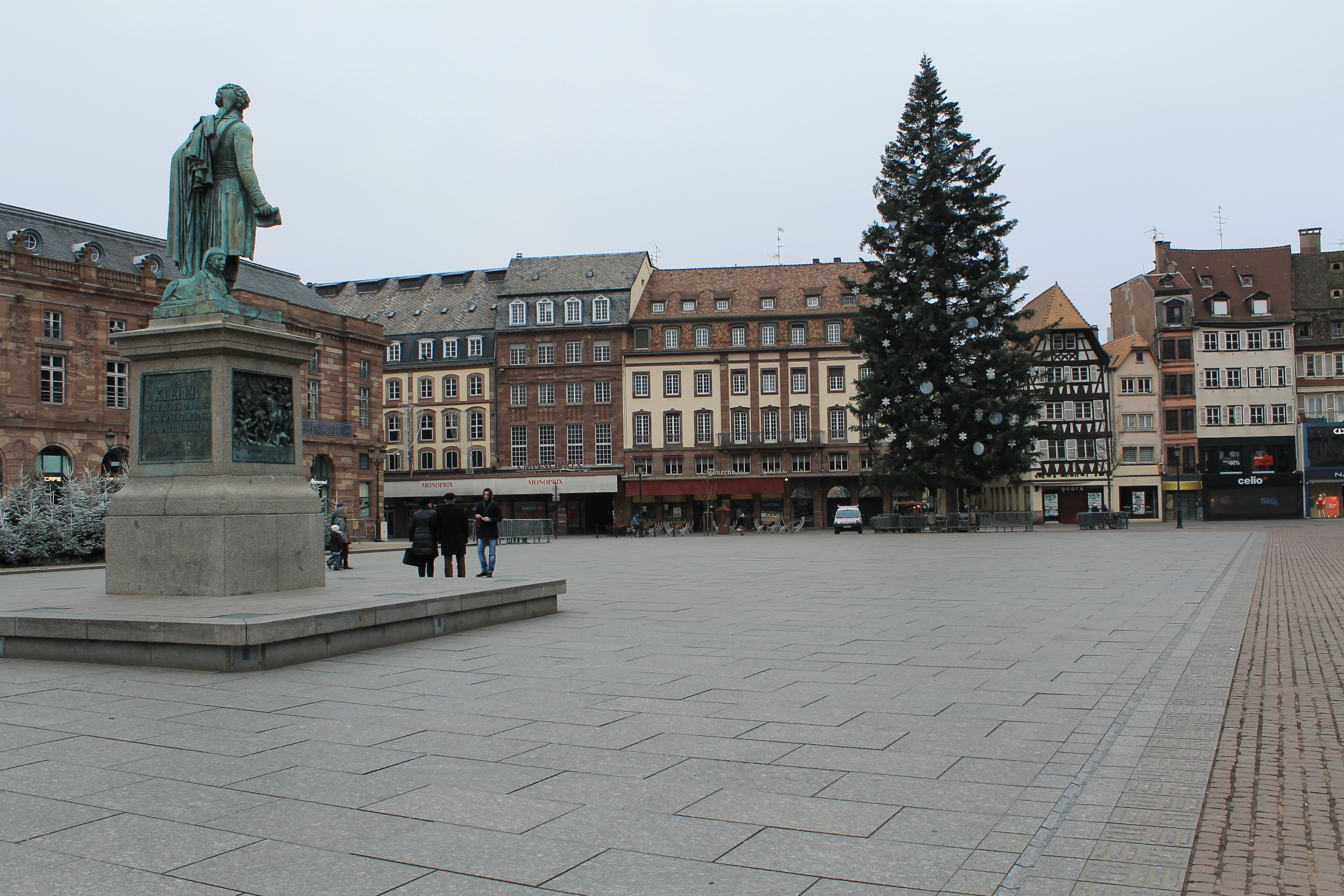 Strasbourg